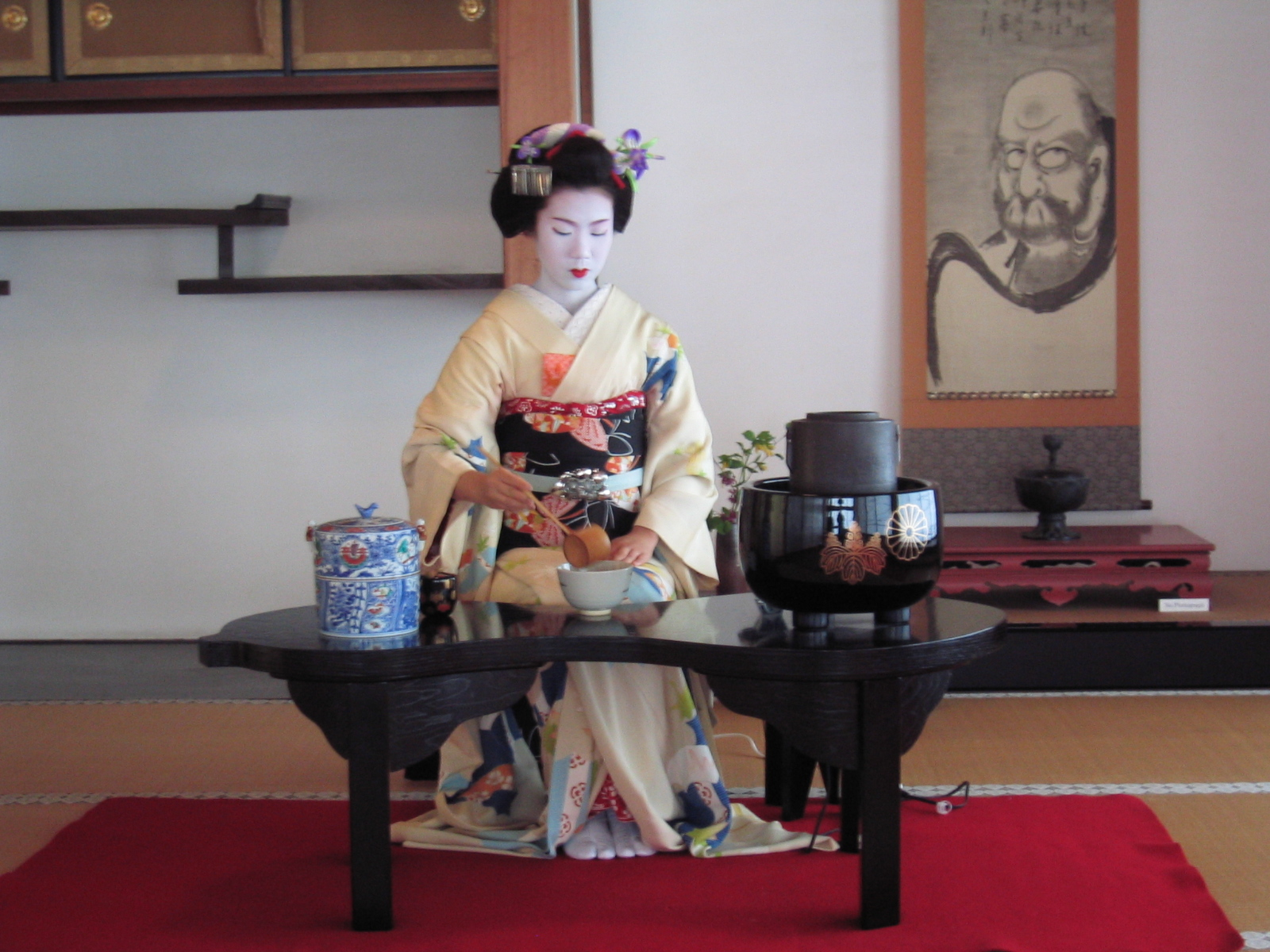 A maiko of Miyagawachou named Toshihana preparing tea